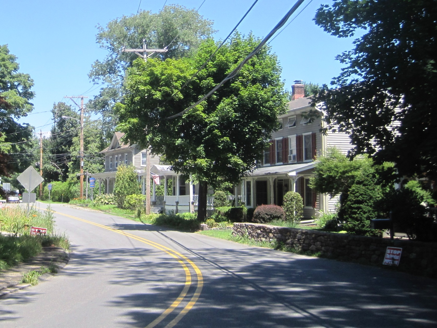 Photo of Rosemont, New Jersey, an unincorporated community within Delaware Township, Hunterdon County. Photo taken on northbound Kingwood-Stockton Road (County Route 519) approaching Rosemont Ringoes Road (CR 604).